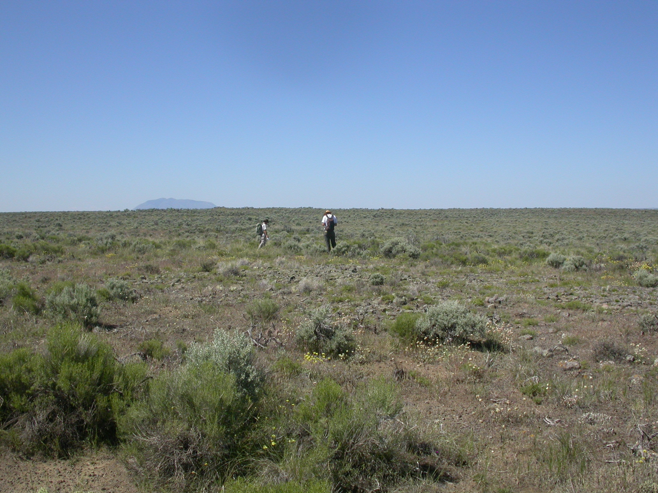 Wyoming sagebrush steppe in the upper Snake River plains includes a lot of areas with exposed basalt rock as substrate. This is seen where the larger shrubs are less abundant and other shrubs, most notably Happlopappus nanus and Gutierrezia sarothrae, are more common.